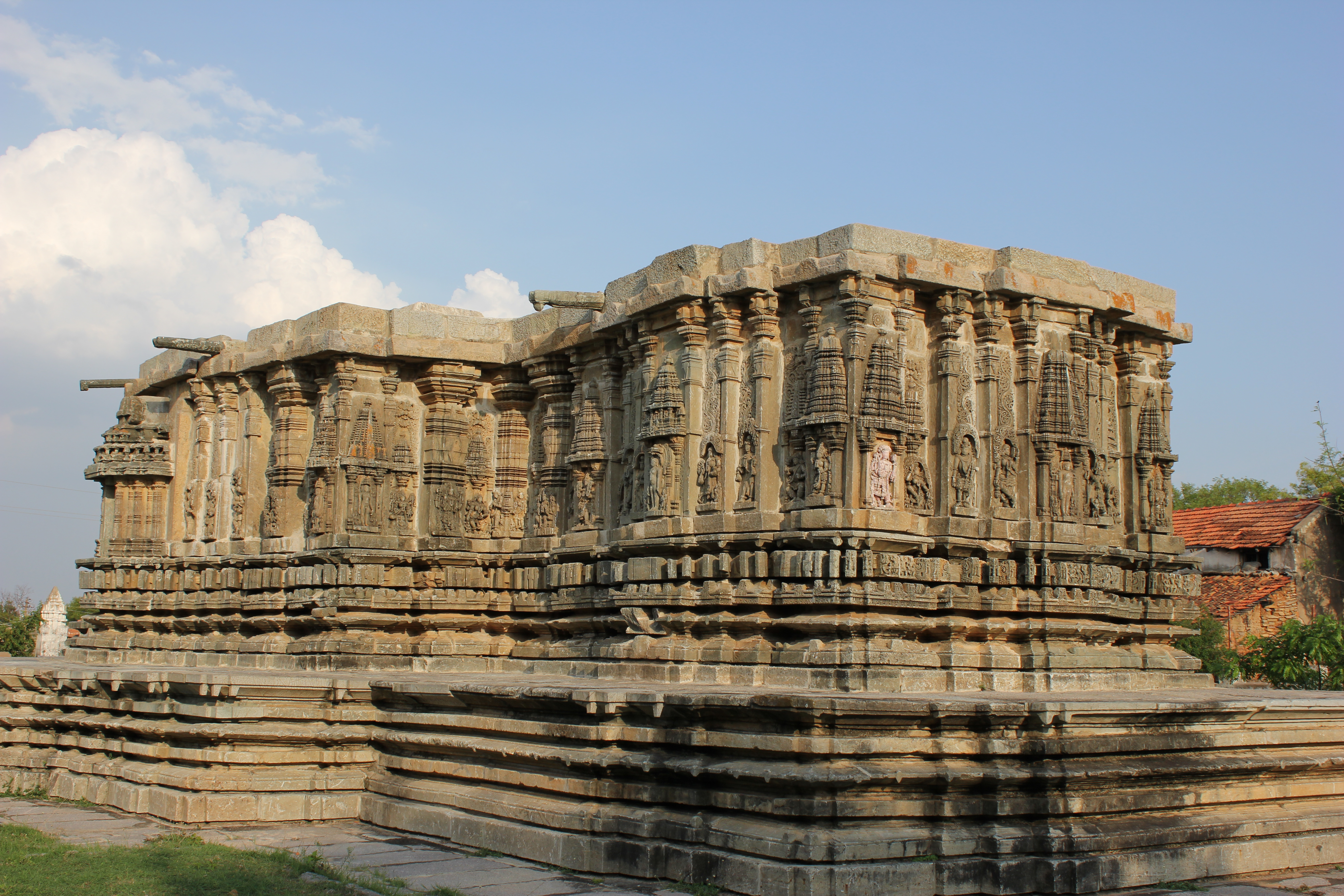 This photograph was taken by me (Dinesh Kannambadi) in the Shantinatha Basadi at Jinanathapura, Hassan district, Karnataka state, India. The Basadi was built around 1200 AD during the rule of the Hoysala Empire King Veera Ballala II.